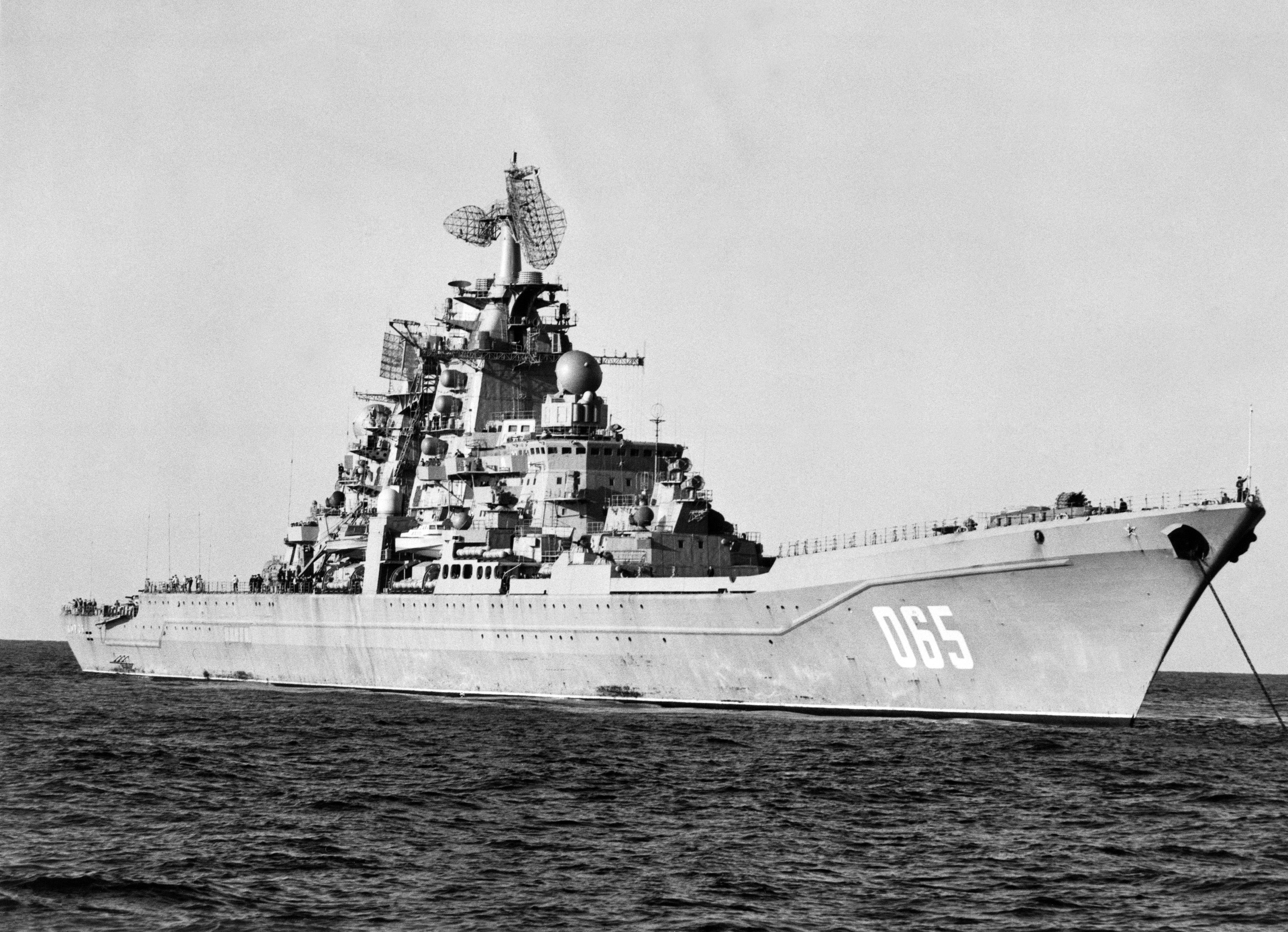 A starboard bow view the Soviet nuclear-powered guided missile cruiser KIROV.